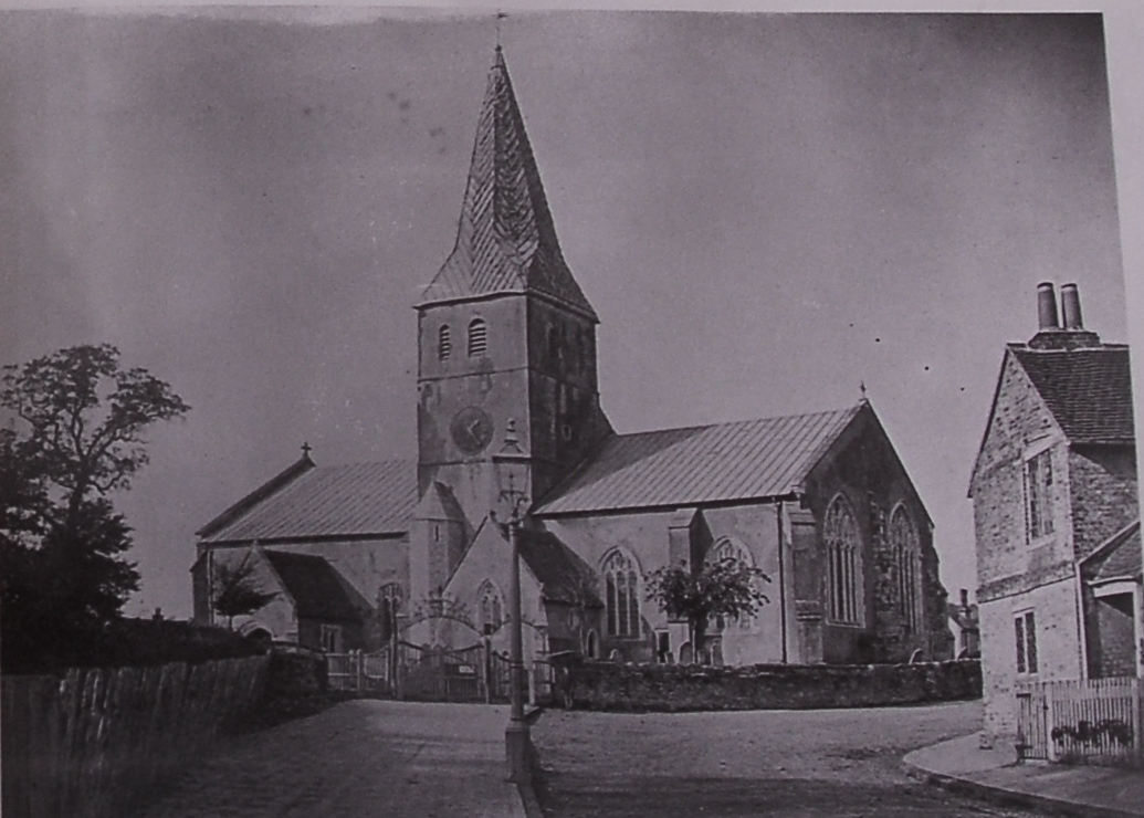 Church of St Lawrence, Alton, photographed in 1868